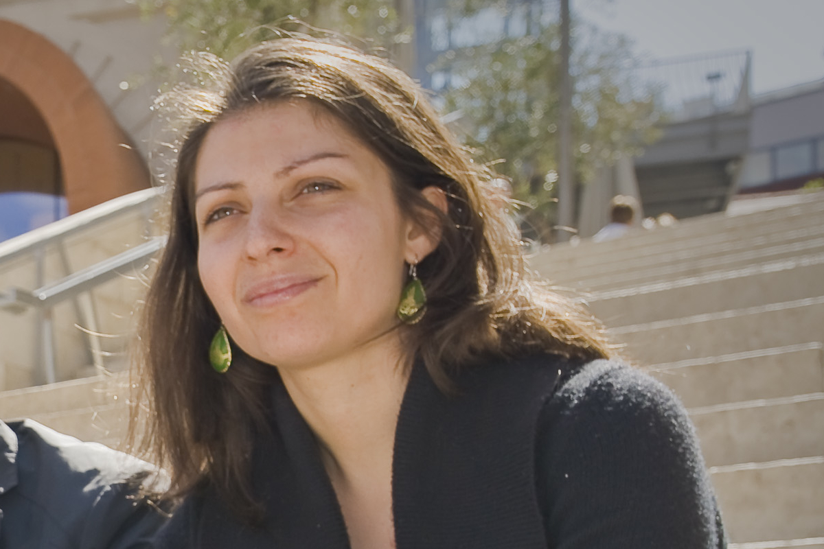 Muna Duzdar at the MuseumsQuartier in Vienna in 2009.